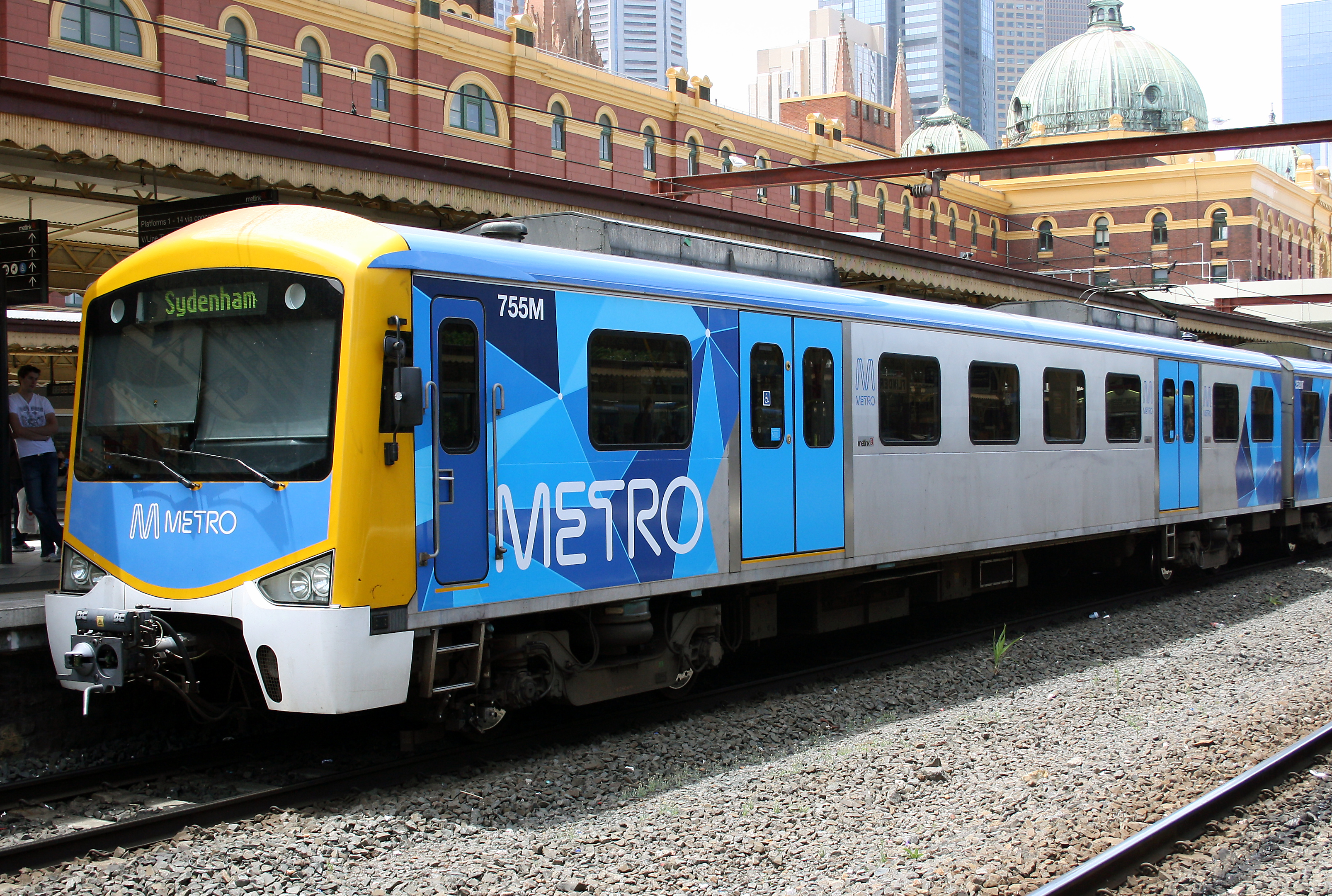 Metro Trains Melbourne set 755M in full Metro Trains Melbourne livery.